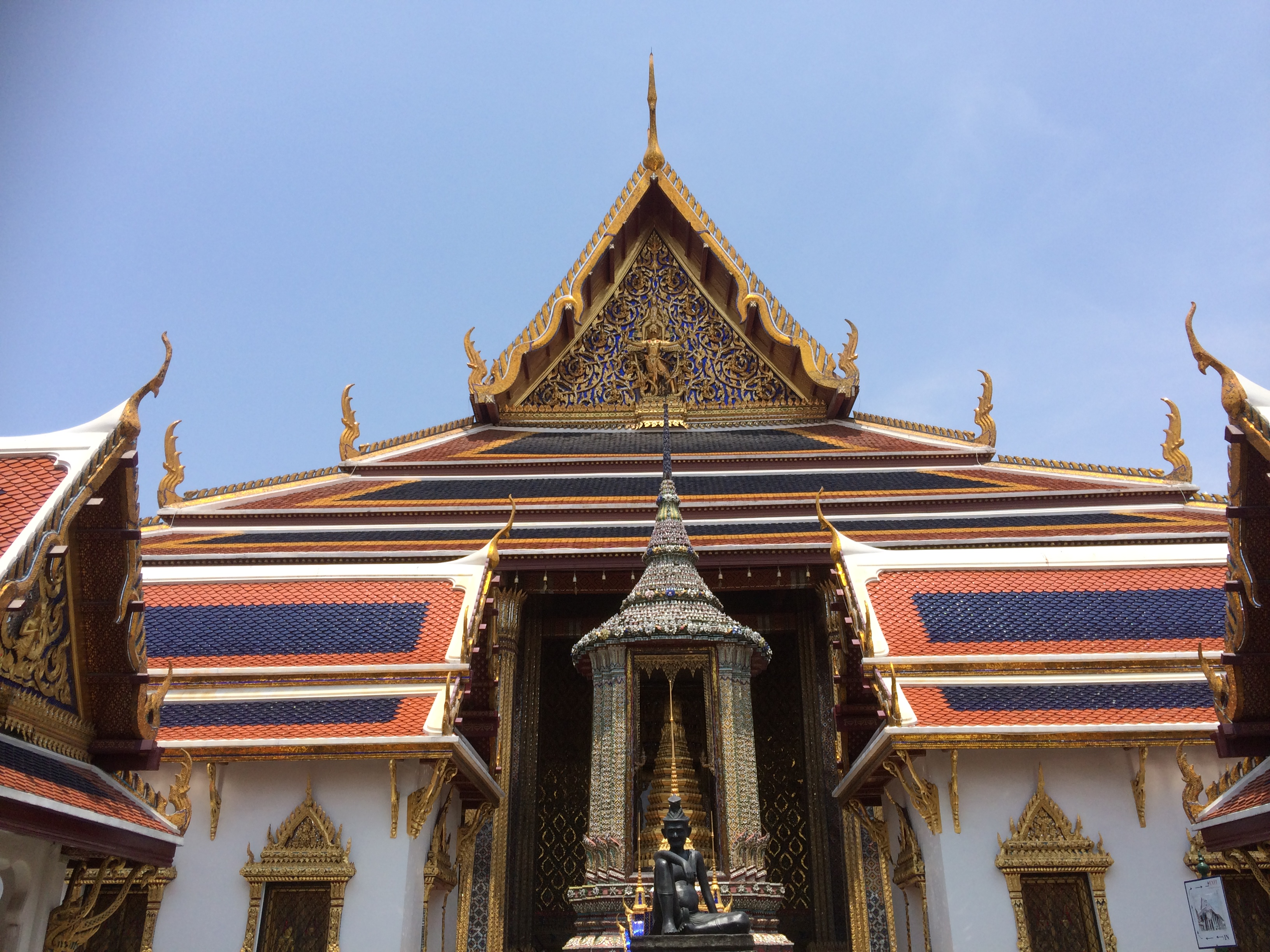 The statue of the seated hermit at Wat Phra Kaew. The placement of the statue is aligned with the centreline of all structures behind it.